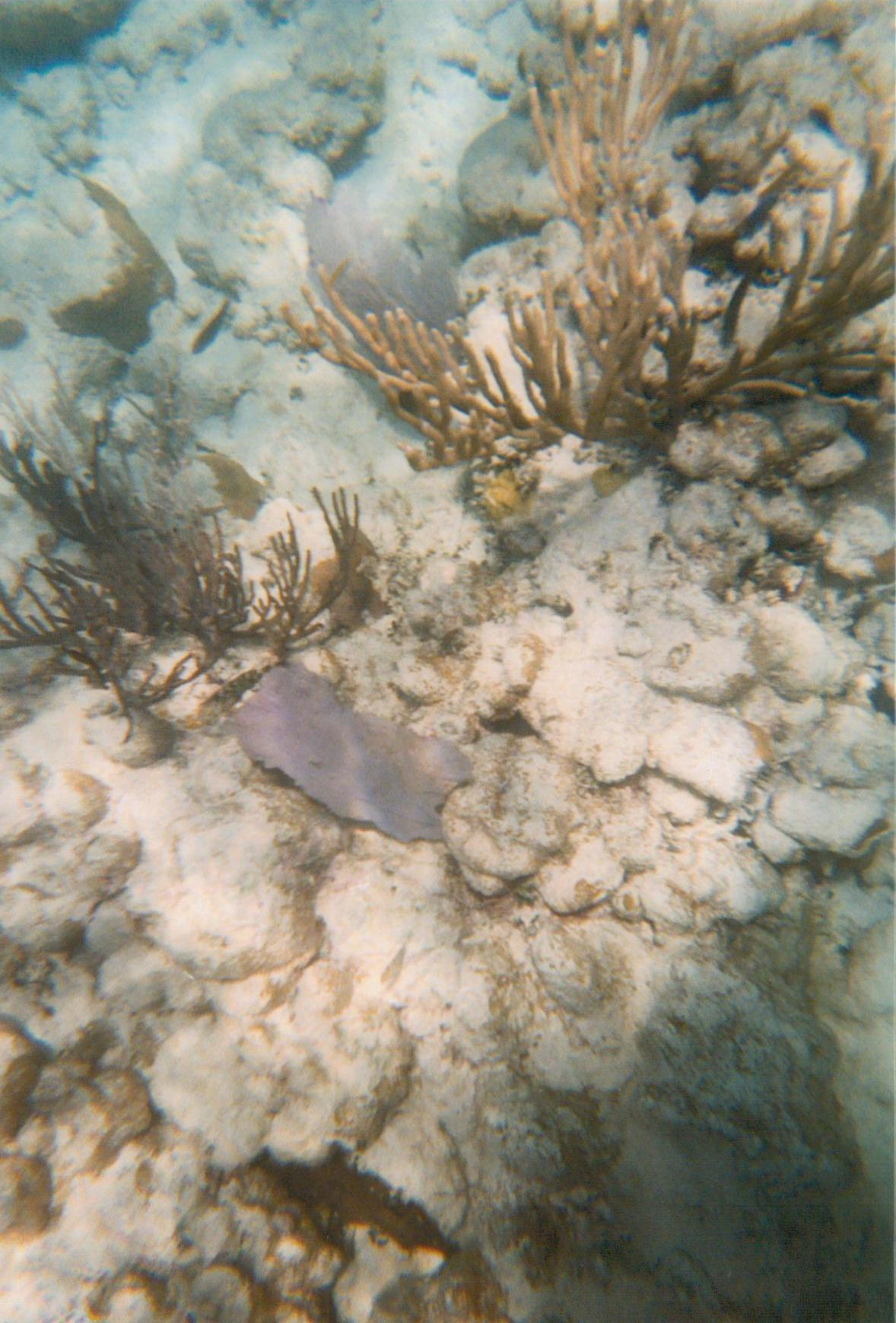 Coral Reef On Culebra